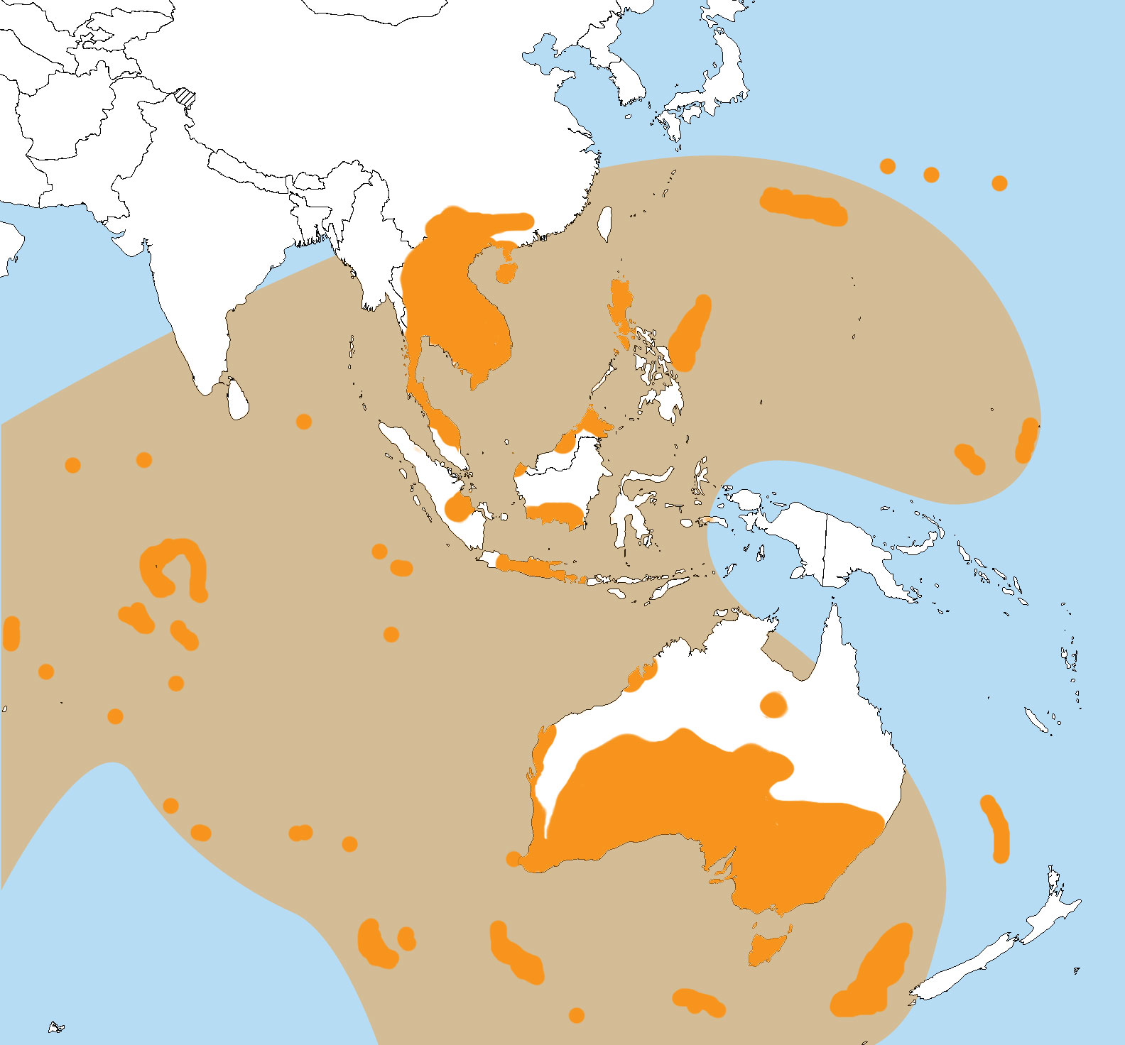 Australasian strewnfield approximate map based on found tektites. 1. Glass, Billy P., Christian Koeberl. 2006. Australasian microtektites and associated impact ejecta in the South China Sea and the Middle Pleistocene supereruption of Toba. Meteoritics and Planetary Science, Vol. 41, No. 2, pp. 305-326. 2. Rocca, M.C.L. 2005. Australasian tektites and atomic bomb glass: close similarity in their shape percentages. Meteoritics & Planetary Science, Vol. 40, Supplement, Proceedings of the 68th Annual Meeting of the Meteoritical Society, September 12-16, 2005, Gatlinburg, Tennessee. Abstract, p. 5001